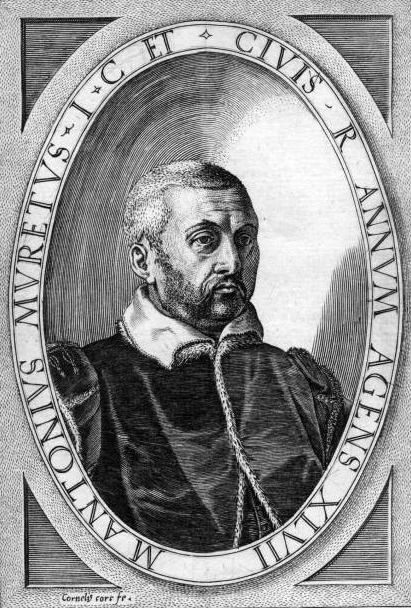 French Renaissance humanist Marc-Antoine Muret (a.k.a. Muretus, 1526-1585) by Cornelis Cort (1533-1578).